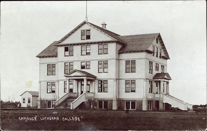 Image courtesy of Peel's Prairie Provinces, a digital initiative of the University of Alberta Libraries.